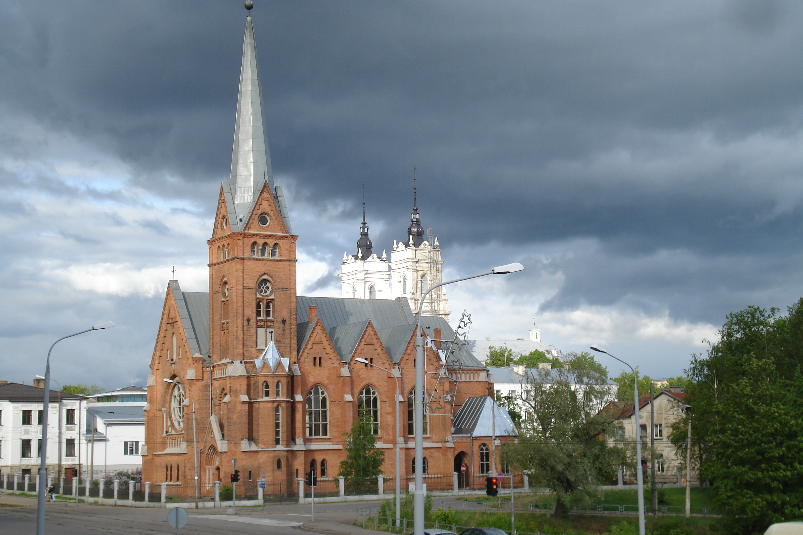 Daugavpils Evangelical Lutheran Cathedral of Martin Luther. Address: 18. novembra iela at Varšavas iela